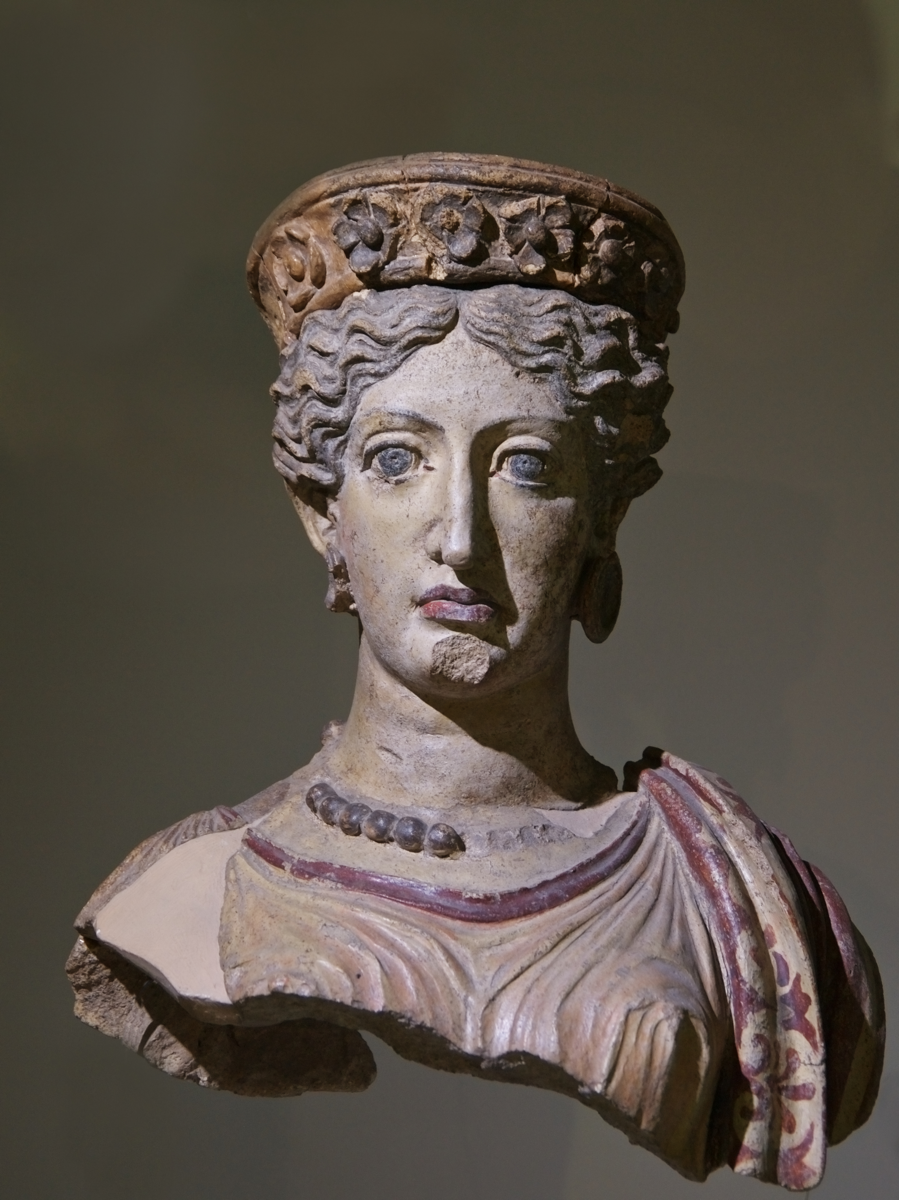 This is a photo of a monument which is part of cultural heritage of Italy.